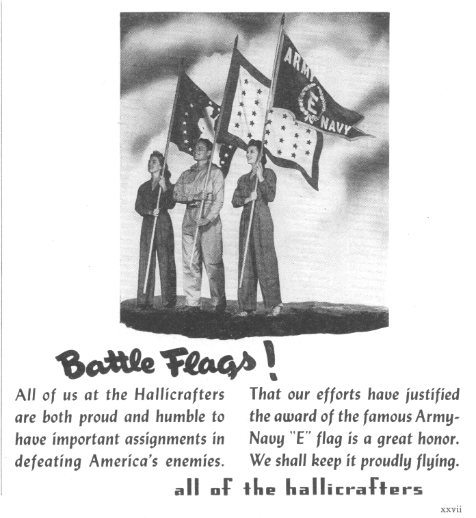 Hallicrafters Company ad in wartime technical magazine, 1942.